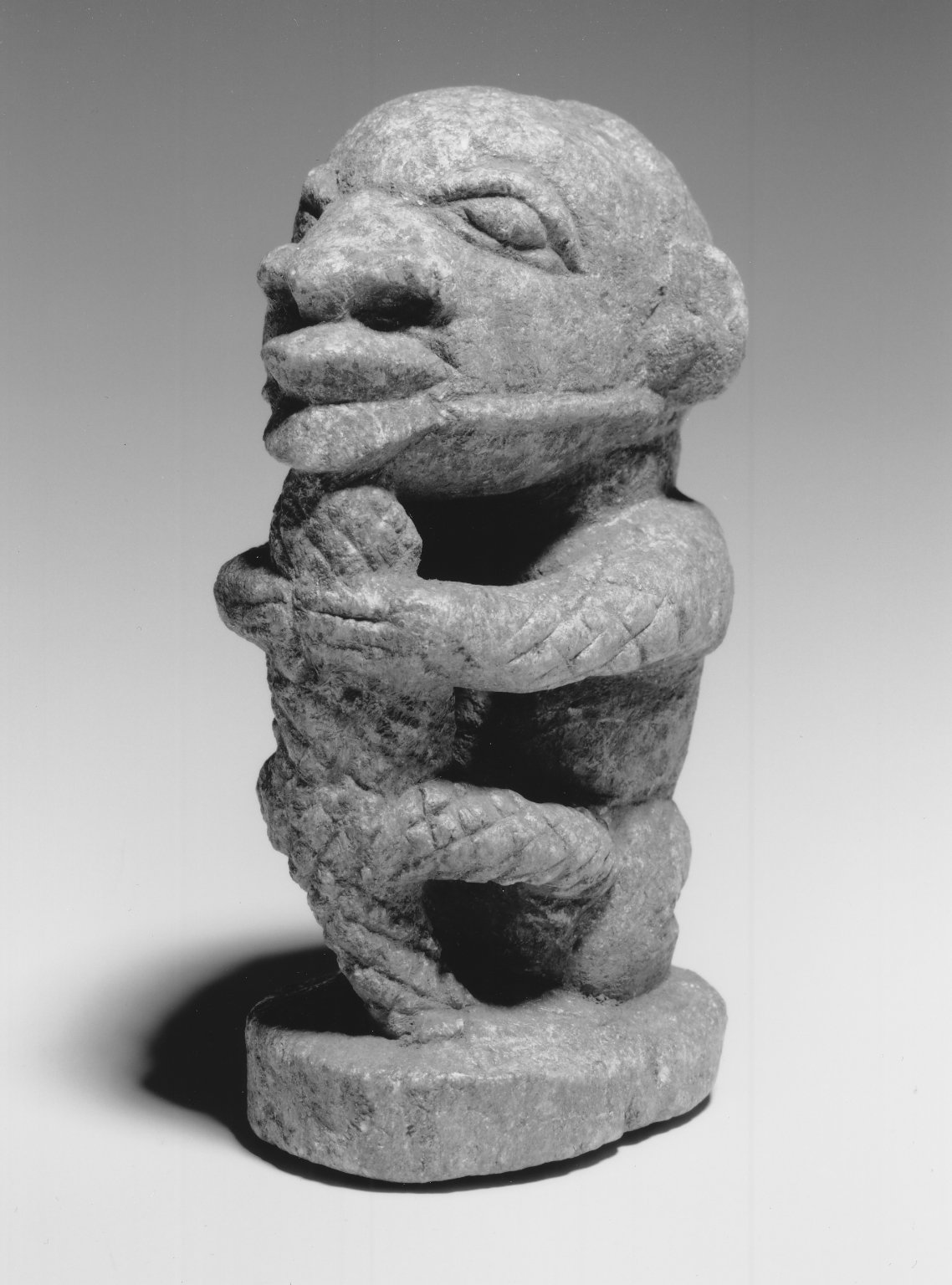 The object is carved of stone depicting a human figure in a squatting or kneeling posture holding a crocodile in front with both hands. Facial features are atriculated in relief with horizontal ridge spanning from the corners of the mouth to just below the ears on both checks. The features are stylized with the head being comparatively large for the size of the body of the figure which makes the object top heavy when stood up on its base. The arms or sleeves of the figure as well as the back and tail of the crocodile are delineated with cross hatching marks. Other surfaces are undecorated. A hole of 3/4 inches deep and 1/4 inch diameter is drilled into the top of the head of the figure (male?). The hollow is not straight and the rim of the opening is unevenly beveled. Soil or burial accretion covers most of the surfaces. Where exposed, the stone is observed to have a crystal structure of interlocking, randomly oriented fibrous clusters of translucent pale gray and green color. The worn areas feel smooth and slippery. CONDITION: Overall surface wear; otherwise in good condition.